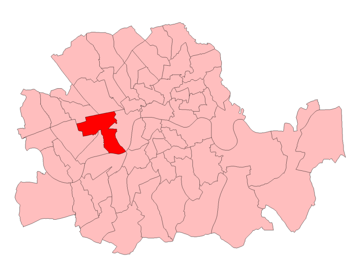 A map of Westminster St George's constituency within the London County Council area, as it existed from 1918 to 1949.